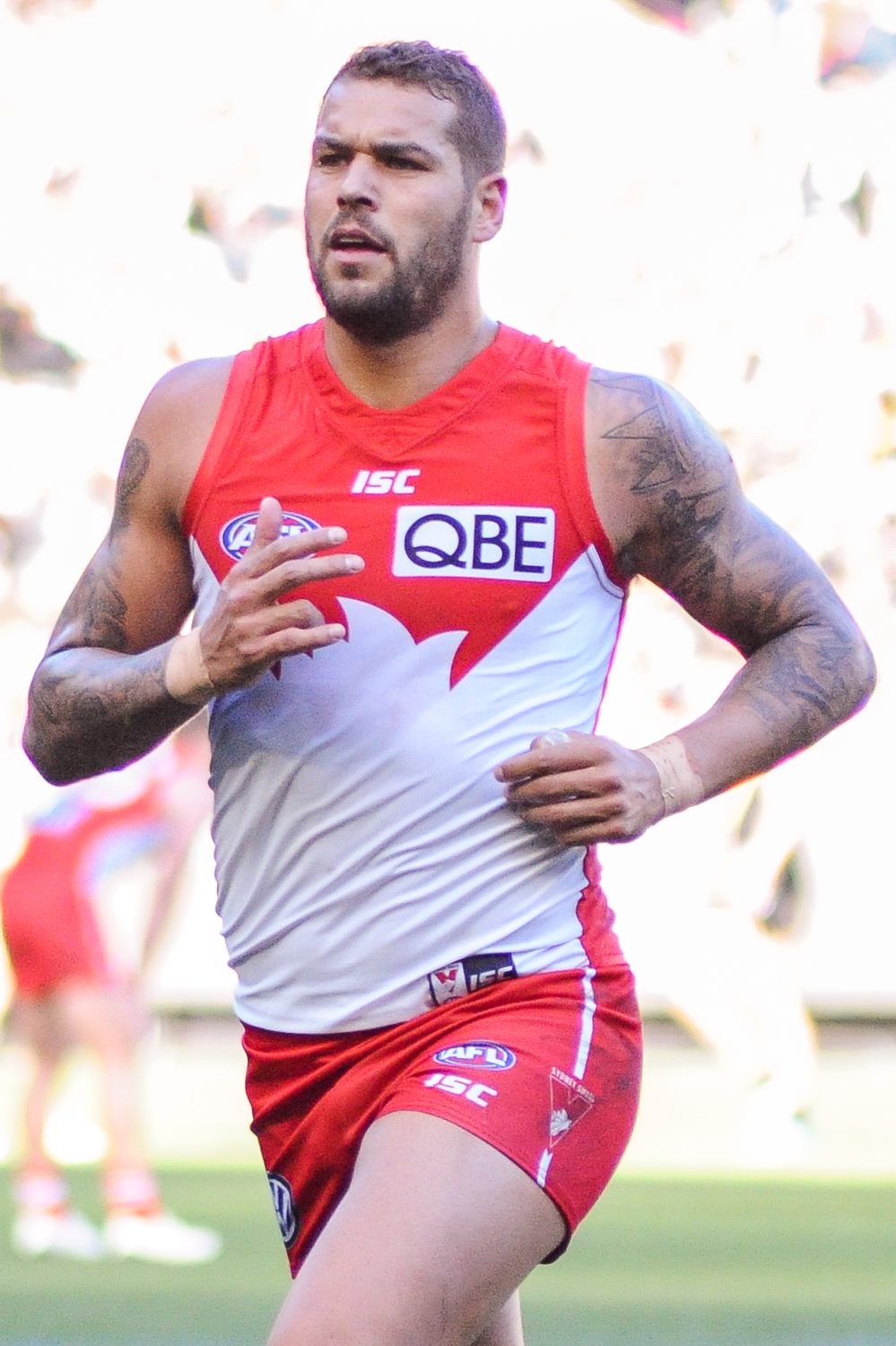 Lance Franklin during the AFL round thirteen match between Richmond and Sydney on 17 June 2017 at the Melbourne Cricket Ground in Melbourne, Victoria.